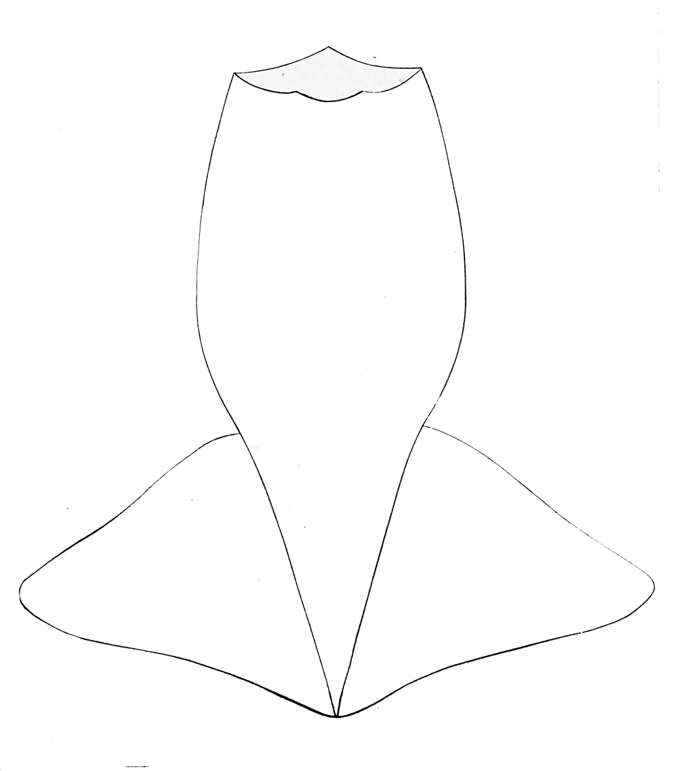 Sthenoteuthis pteropus mantle